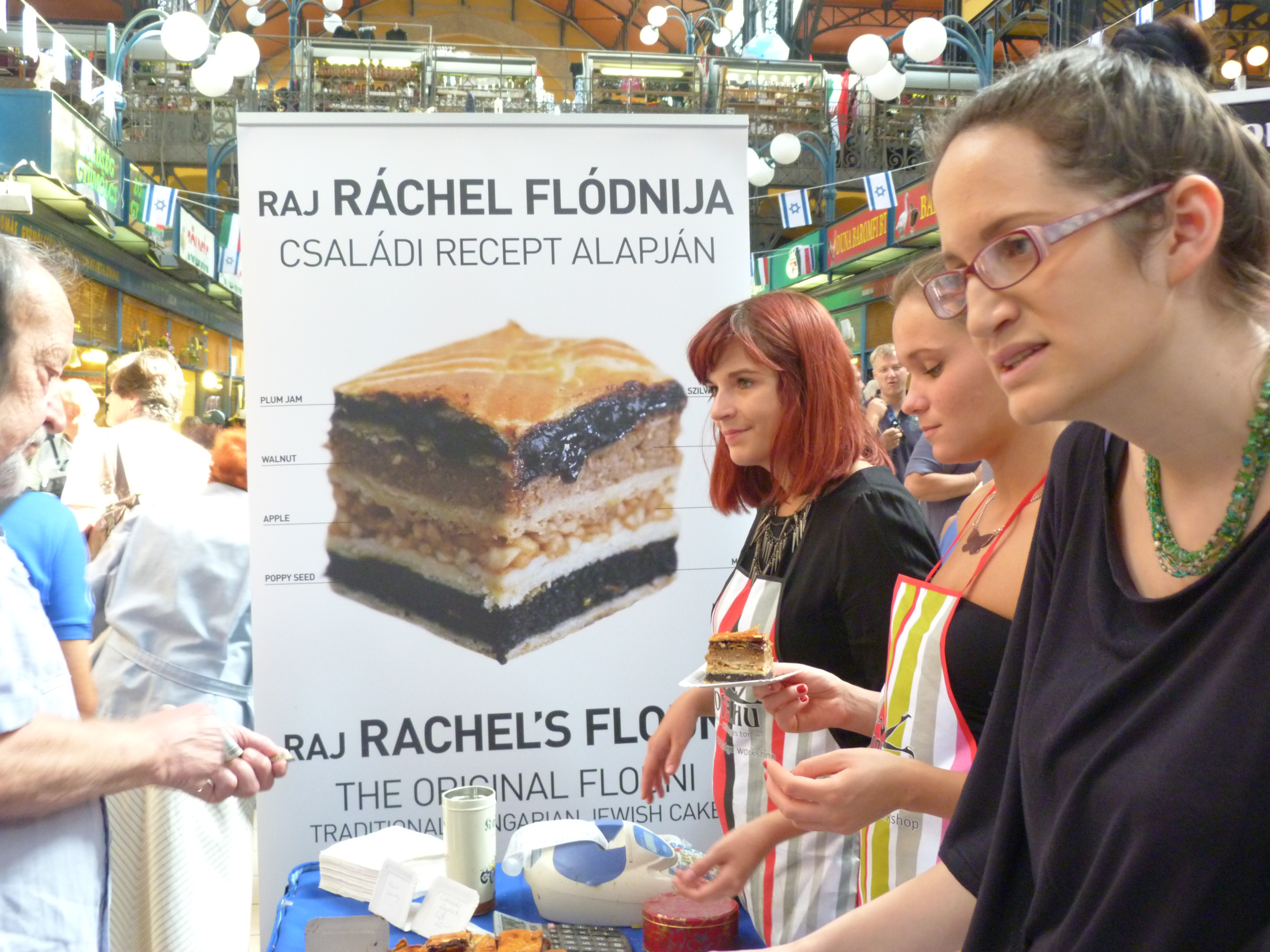 Live on 30th of August, 2013. Budapest, Great Market Hall, Nagycsarnok. Ráchel's flodni. Days of Israel. A felvétel 2013. augusztus 30 –án pénteken készült Budapesten, a Nagycsarnokban. Ráchel flodnija. Izraeli napok a Nagycsarnokban. ©© Derzsi Elekes Andor, Budapest, 2013, You are authorised to use these photos and vids under Creative Commons – even for commercial, for profit purposes. Photos must be attributed to Derzsi Elekes Andor. All of the photos and vids in the Metapolisz DVD line are under Creative Commons and can be used even for commercial – for profit – purposes. Recommended Citation Derzsi Elekes Andor: Metapolisz DVD line